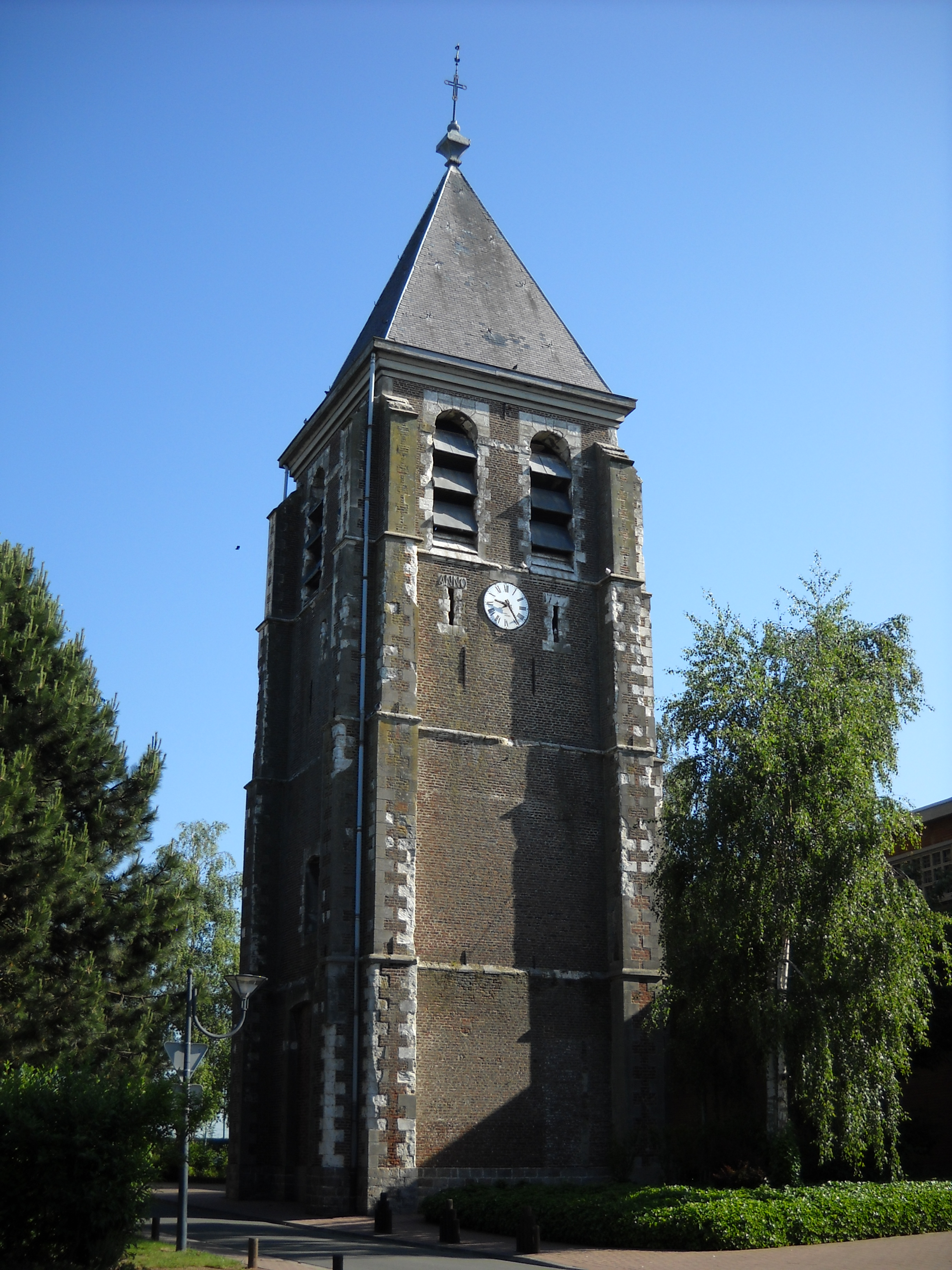 The church of Fretin, Nord, France.